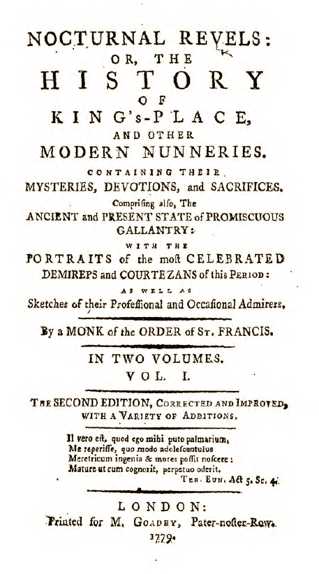 Taken from the frontipiece of Nocturnal Revels, published in 1779.